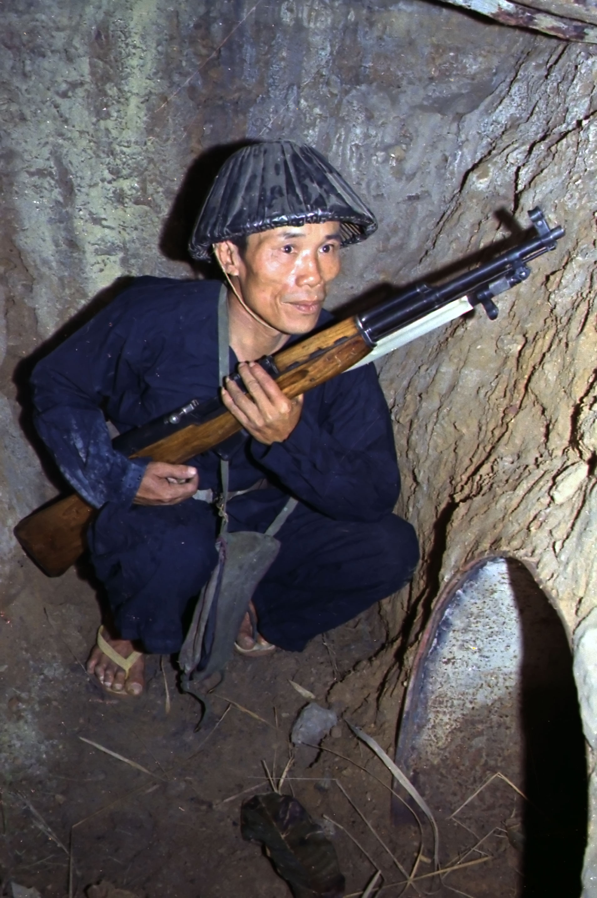 A Viet Cong soldier crouches in a bunker with an SKS rifle.